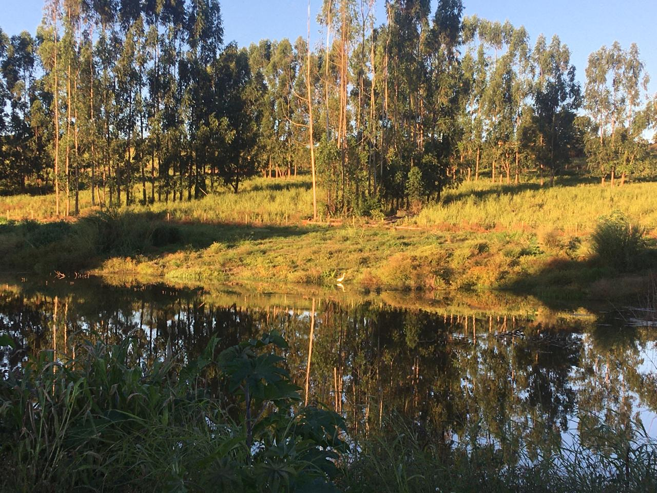 Body of water along the road that leads to the municipality of Patrocínio in Coromandel - MG.